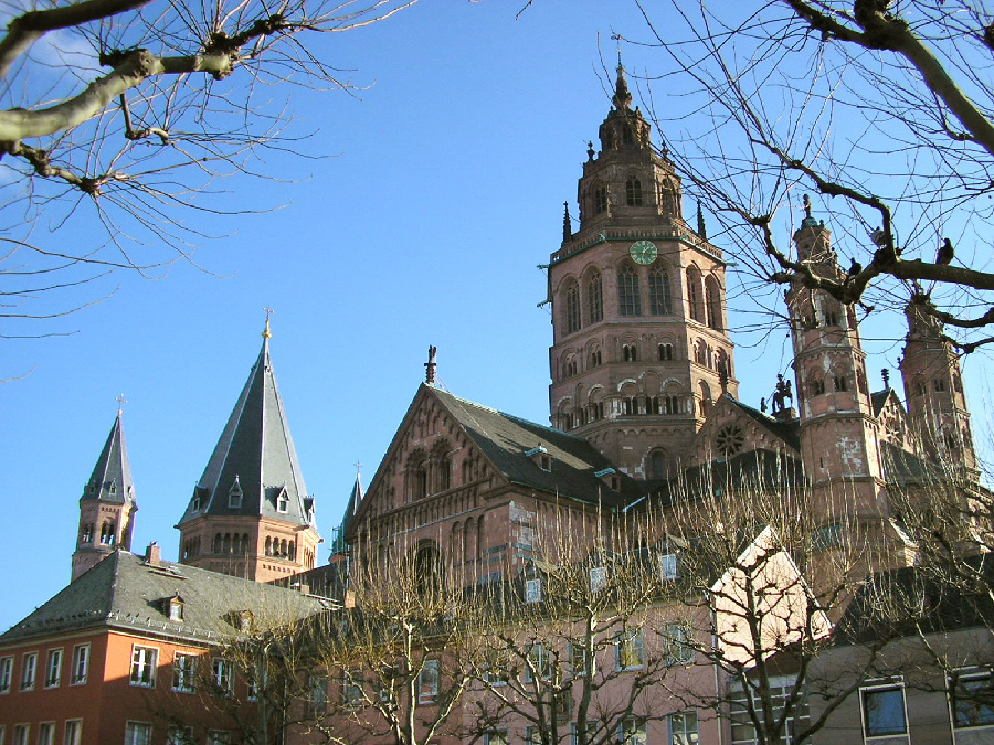 Mainz Cathedral from nord-west